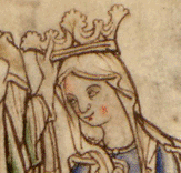 Edith of Wessex